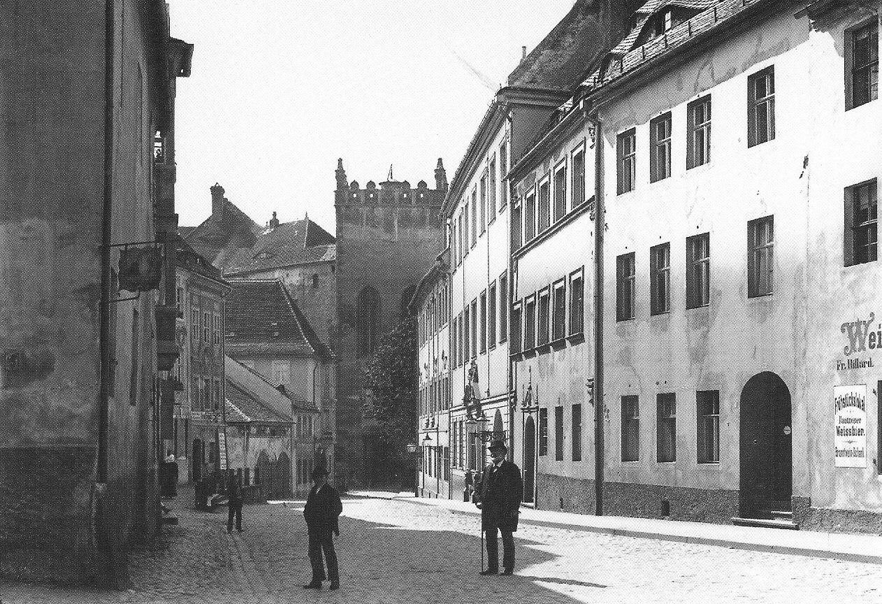 Bautzen; Castle Street with Matthias Tower ca. 1900